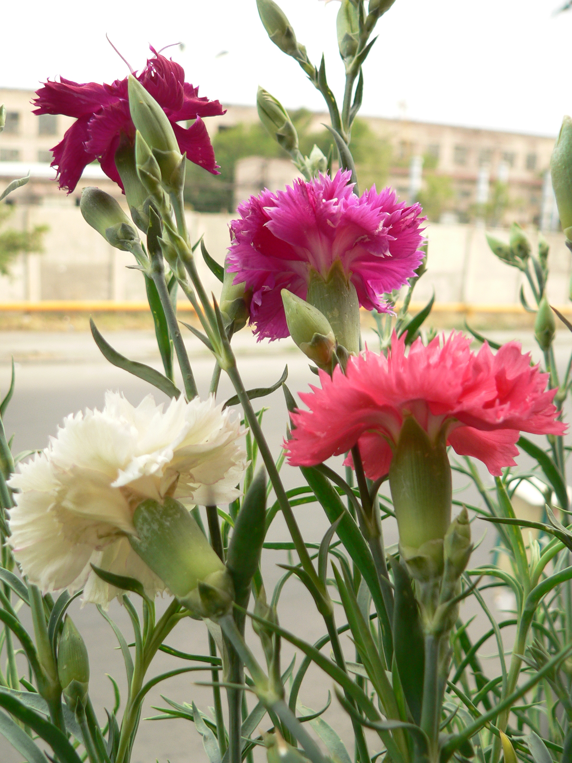 Dianthus caryophyllus var schabaud